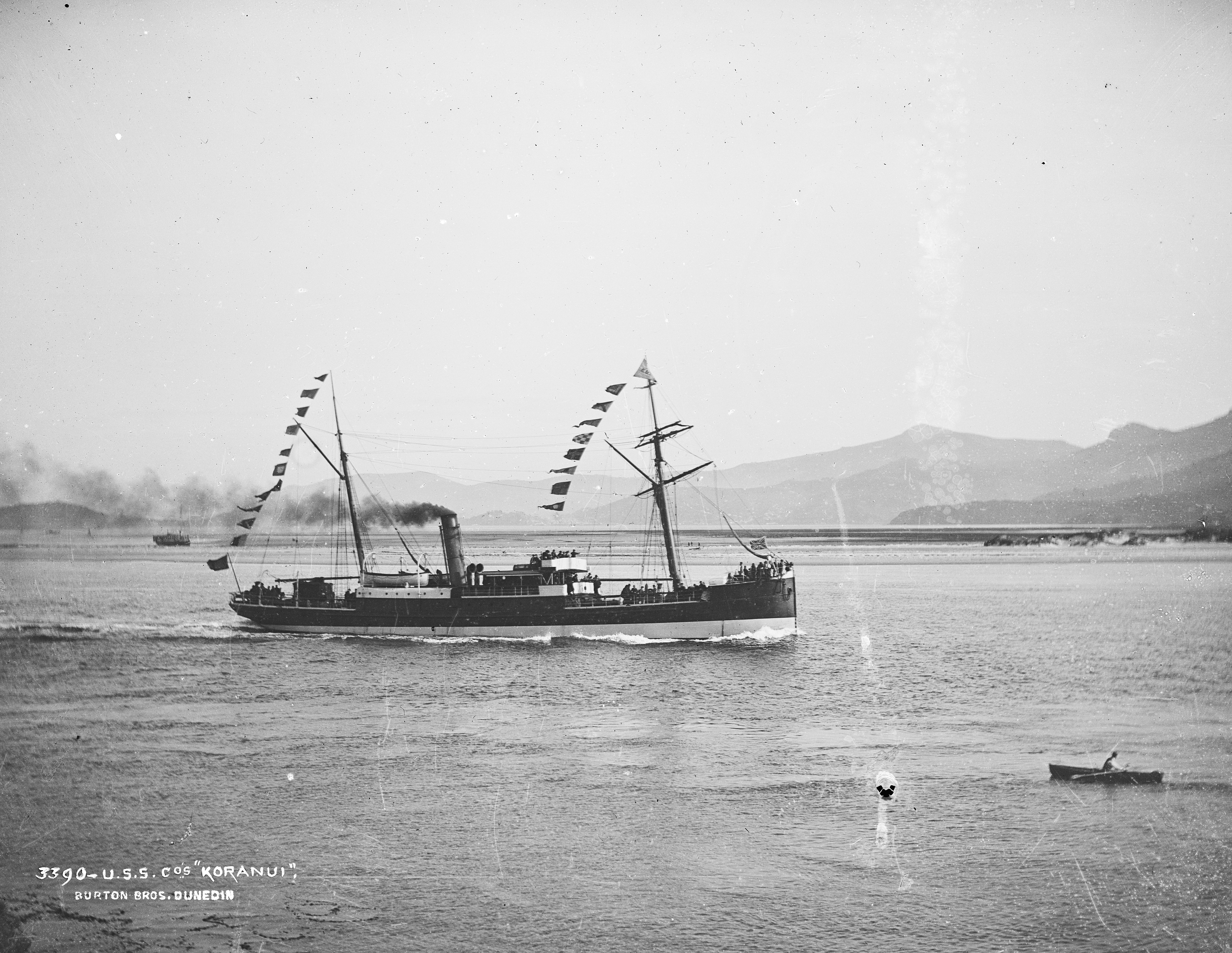 Union Steam Ship Company's "Koranui" going past Taiaroa Heads, Otago Harbour